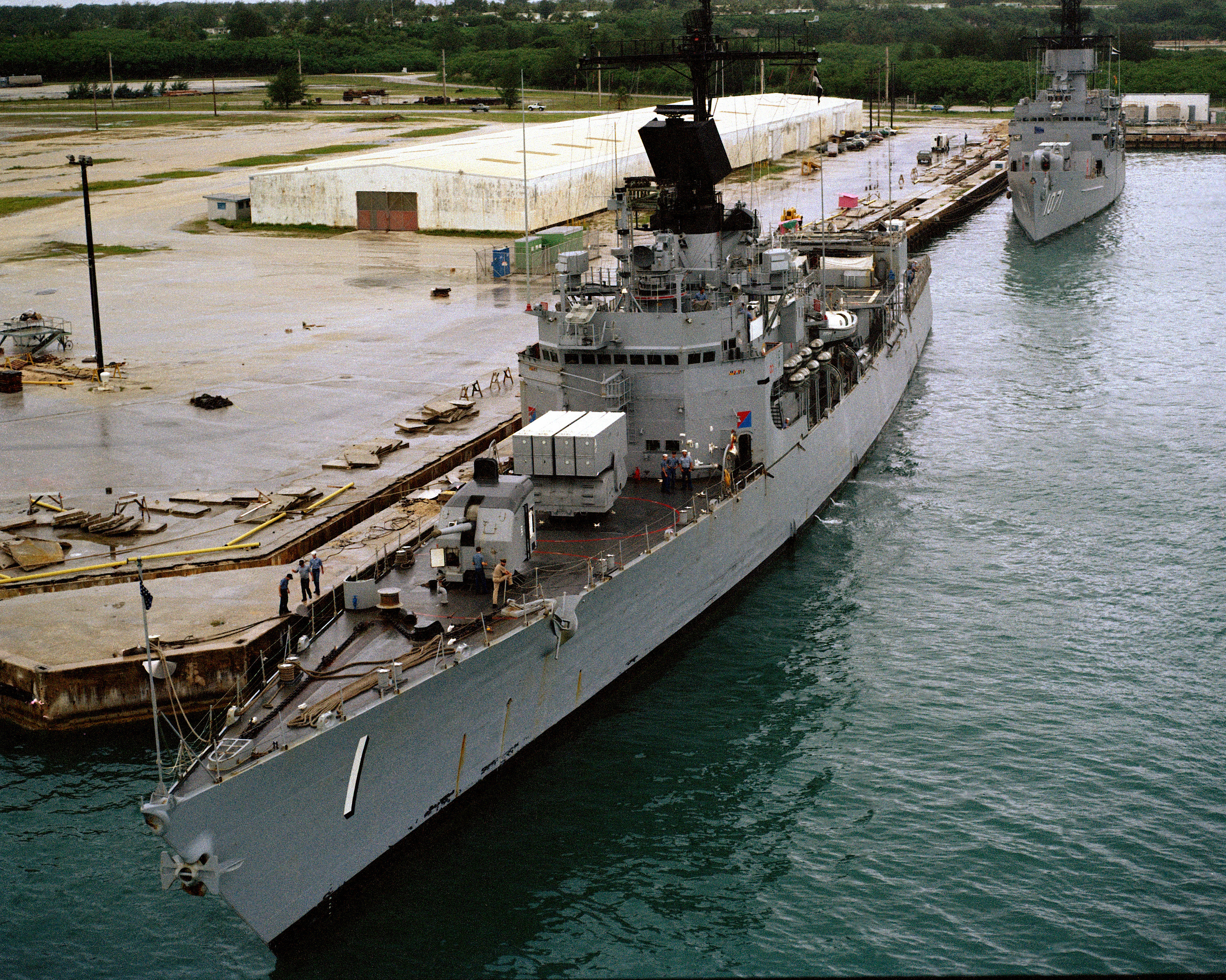 The U.S. Navy guided missile frigate USS Brooke (FFG-1), front, and the frigate USS Badger (FF-1071) moored at a pier at Apra Harbor, Naval Base Guam (USA), on 2 November 1983.